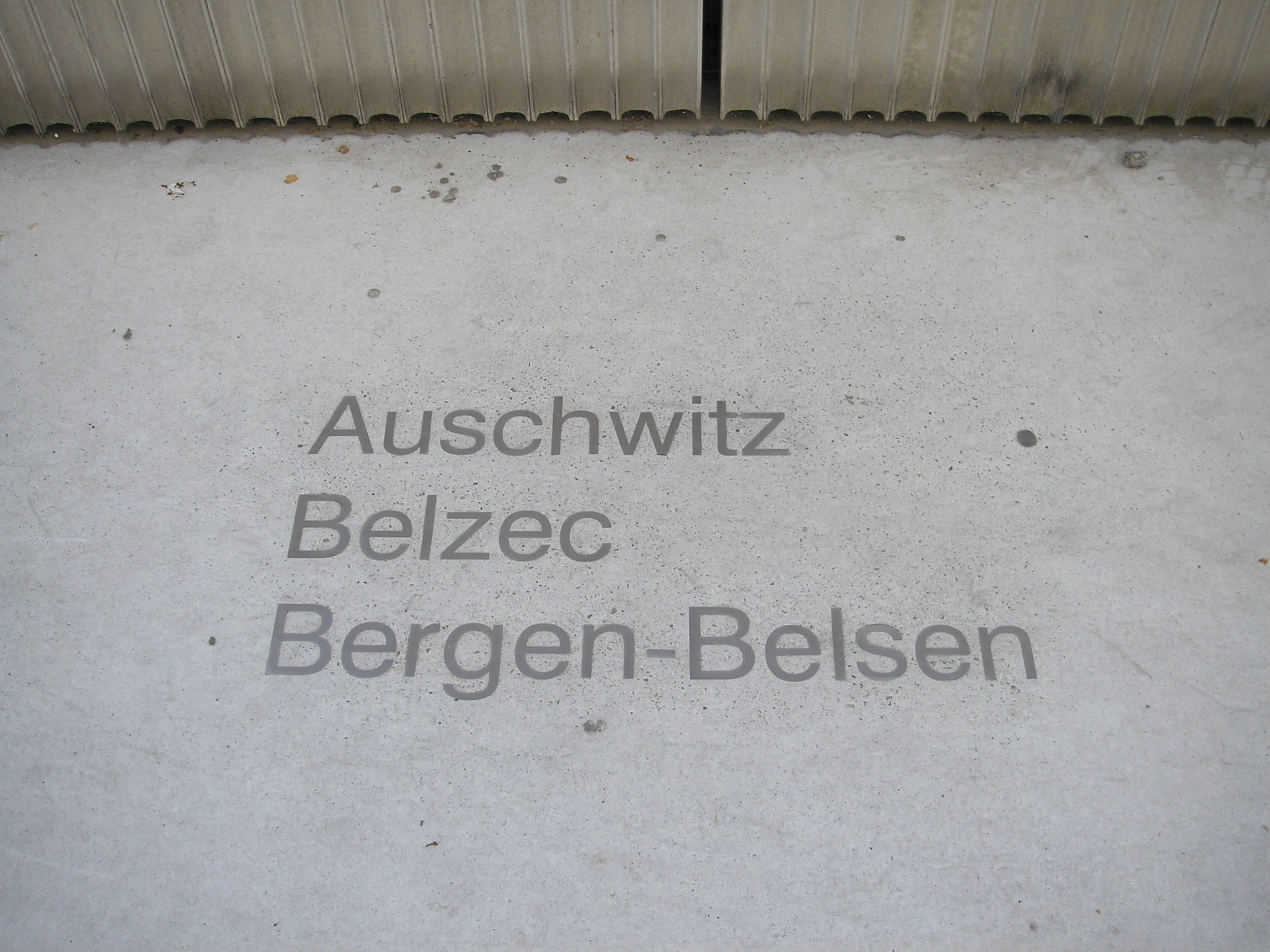 Detailed image of the Holocaust monument in Vienna, constructed by Rachel Whiteread.